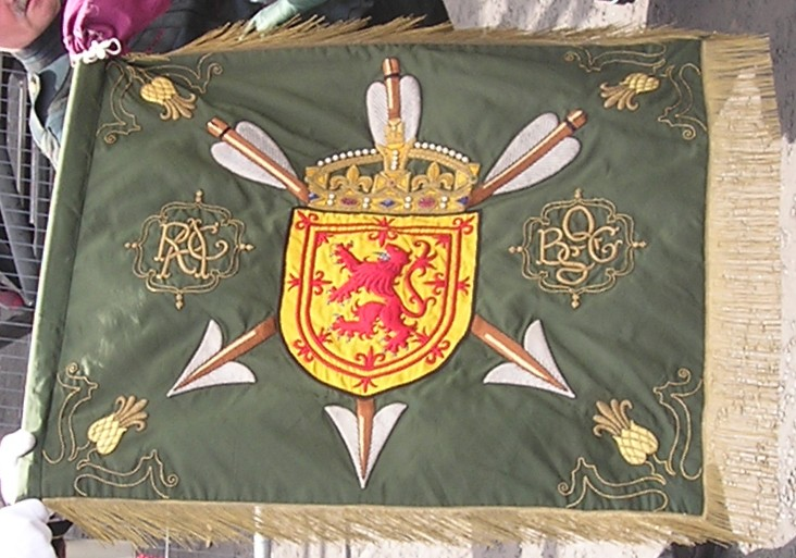 One of the flags (colours?) of the Royal Company of Archers (the Queen's Bodyguard for Scotland). The initials are RCA (left) and QBGS (right).